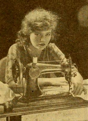 Still from the American drama film The Unknown Quantity (1919) with Corinne Griffith with a sewing machine, on page 274 of the April 12, 1919 Moving Picture World.